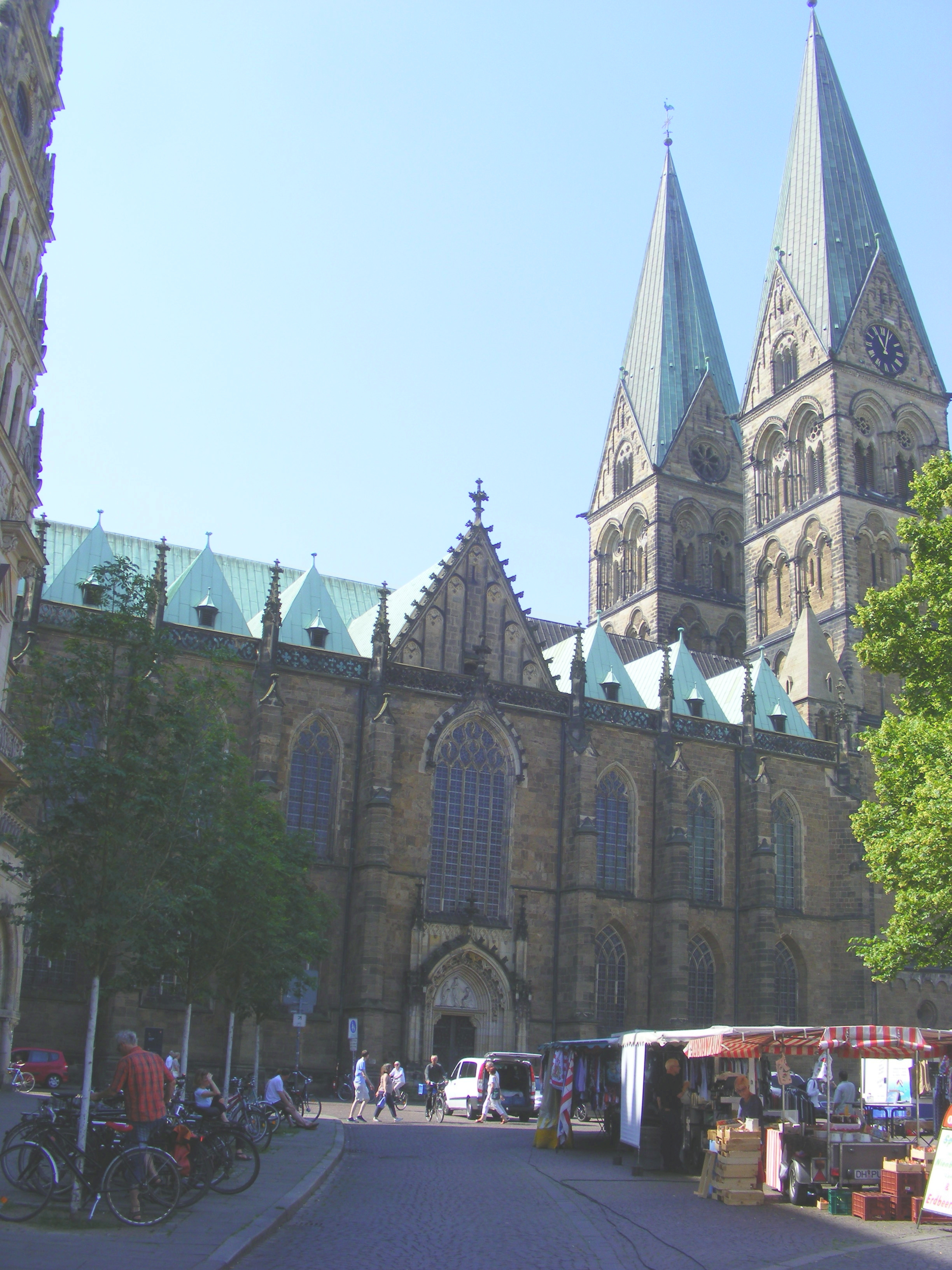 Northern side of Bremen Cathedral behind cycletrack and Saturday market on Domshof square